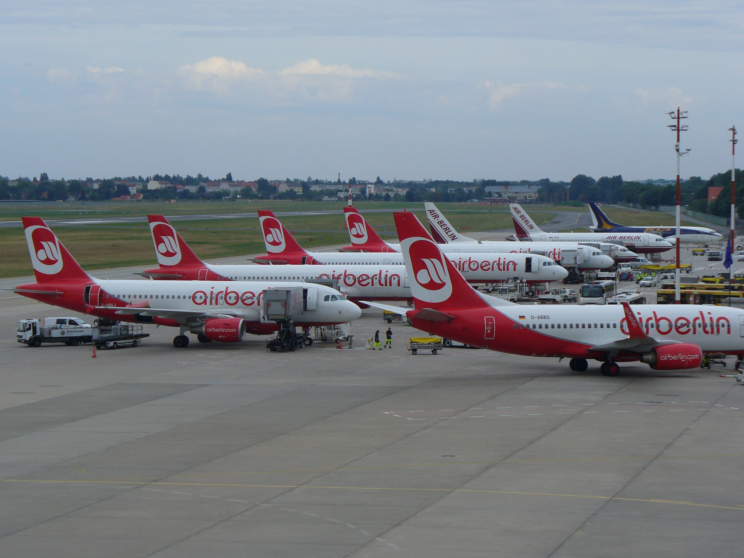 Airplanes (Air Berlin and KD Avia) at Berlin-Tegel Airport